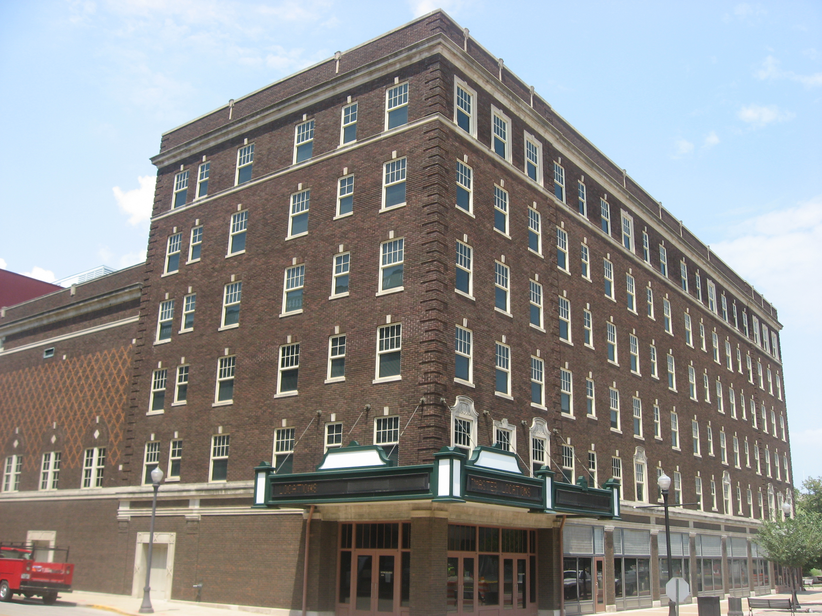 Front and southwestern side of the Victory Theater and Hotel Sonntag, located at 600-614 Main Street in Evansville, Indiana, United States. Built in 1921, it is listed on the National Register of Historic Places.